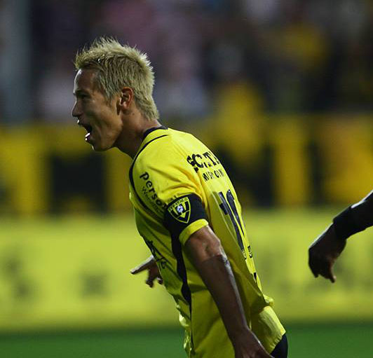 AUGUST 22, 2009 - Football : Keisuke Honda of VVV Venlo celebrates his goal during the Eredivisie match between VVV Venlo and FC Groningen at the De Koel stadium on August 22, 2009 in Venlo, Netherlands. (Photo by Tsutomu Takasu)